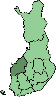 The Finnish province of Vaasa (Vaasan lääni) as of 1997